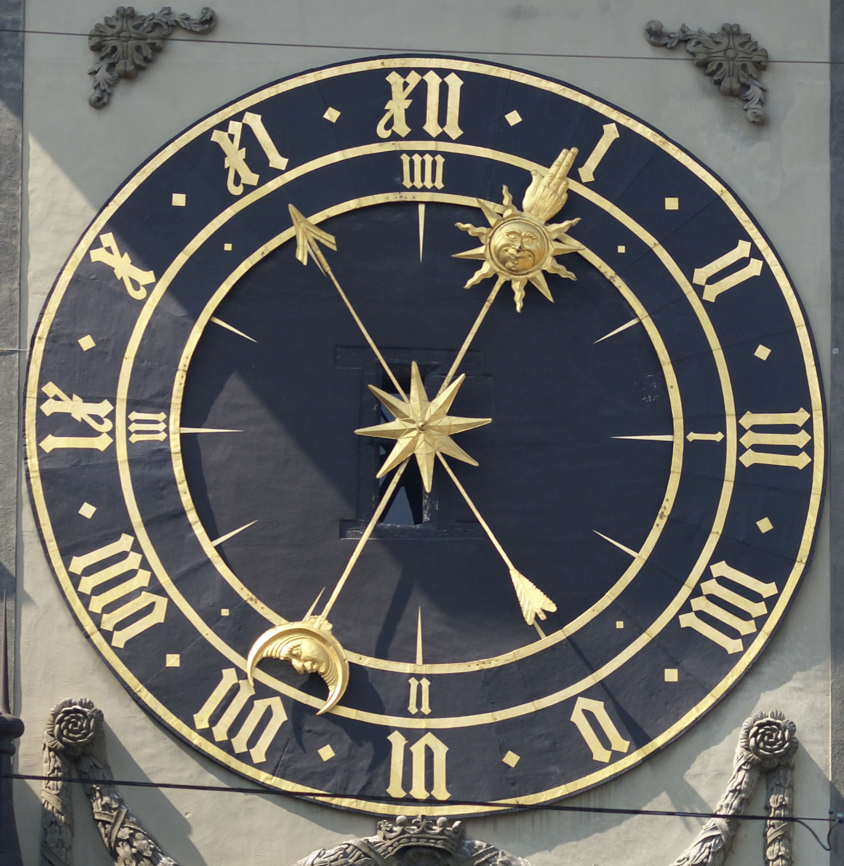 Zytglogge tower in Bern, Switzerland. Architectural detail: eastern clock face.